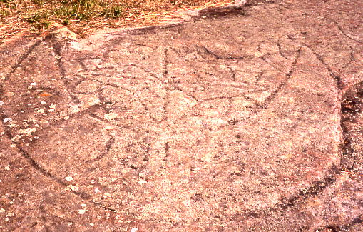 Callan Park Hospital for the Insane located in the grounds of Callan Park, an area of the Sydney suburb of Rozelle in Australia. One of many rock carvings in the hospital grounds, possibly the work of former patients. Photo by Sardaka 10:06, 2 October 2007 (UTC)